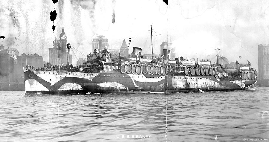 USS Siboney (ID # 2999) In New York Harbor, with her decks crowded with troops returning home from France, circa late 1918 or 1919. Photographed by E. Muller Jr., New York. Collection of Captain Clarence S. Williams, USN. Donated by Mrs. Clarence S. Williams, 1975. U.S. Naval Historical Center Photograph. Note: The original print is broken into three sections and is badly stained in some areas.